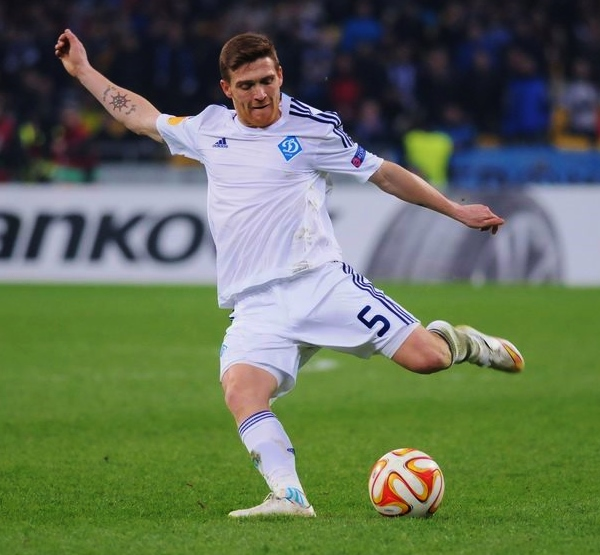 Vitorino Antunes